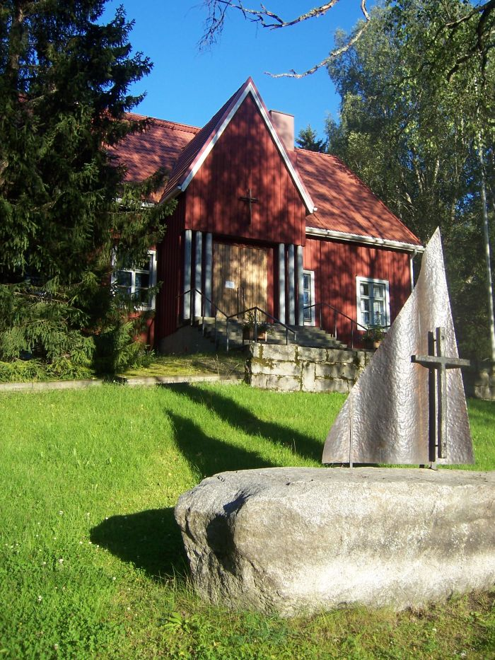 Pinsiö church, Nokia, Finland